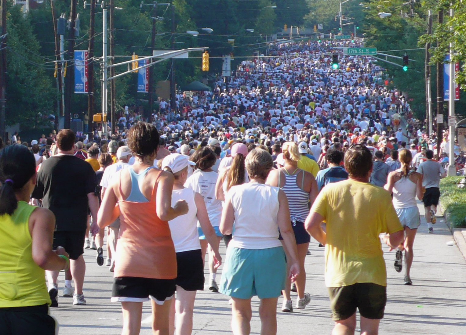 2007 peachtree road race crowd shot